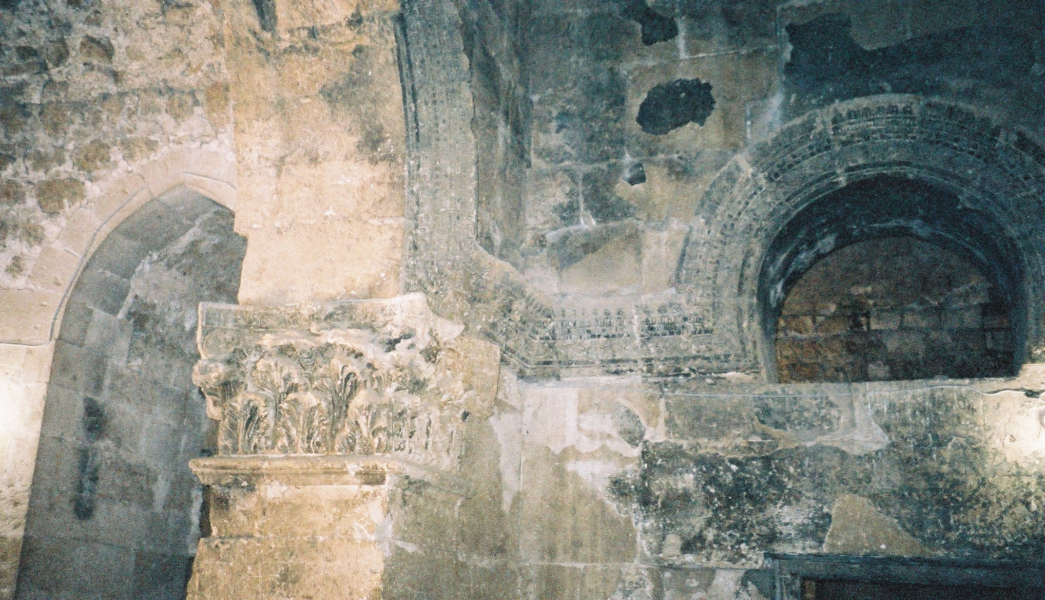 Photograph by Gareth Hughes of the interior of the Church of Saint Jacob (`Idto d-Mor Y`aqub) in Nisibis.